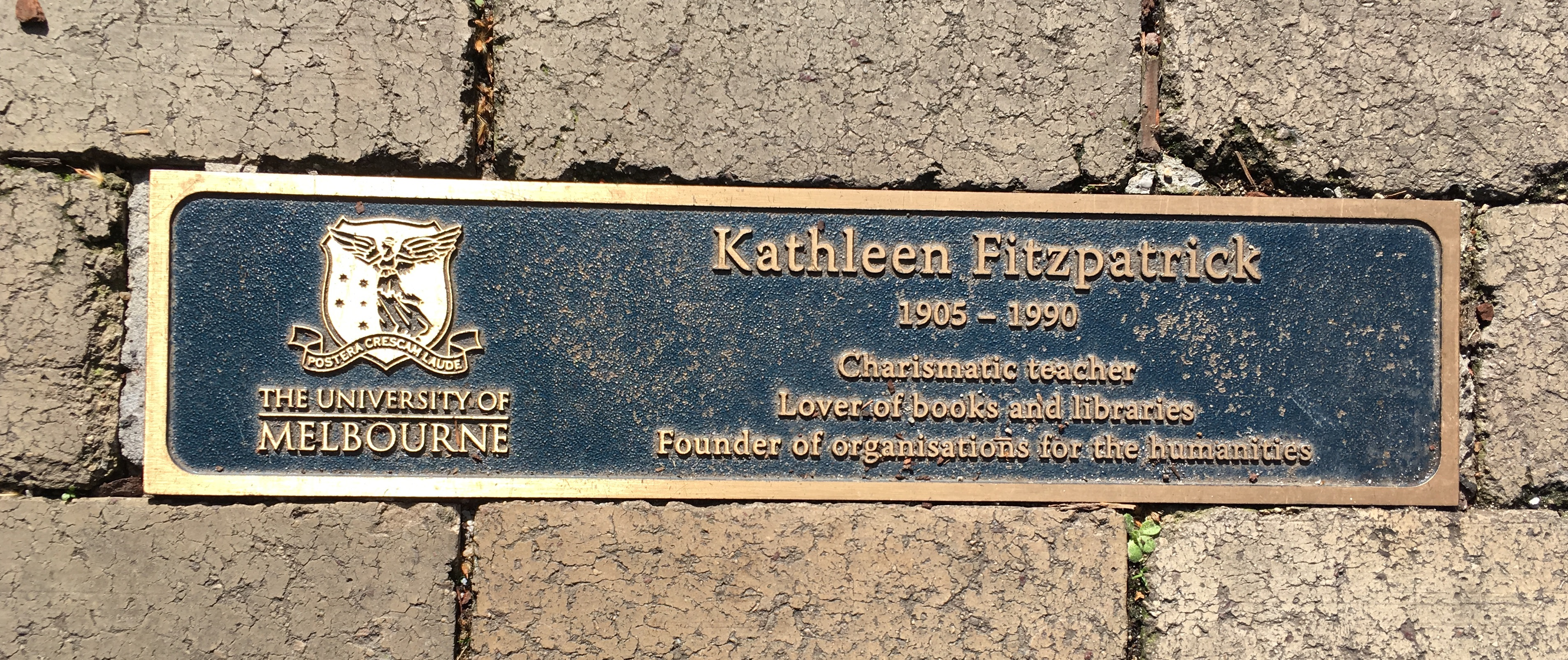 Kathleen Fitzpatrick, University of Melbourne Award, Bronze Plaque installed in Professors Walk on the Parkville campus